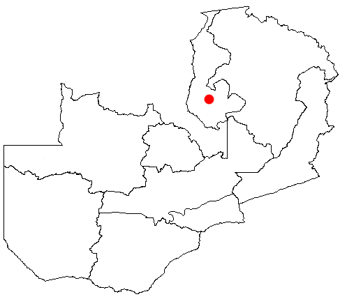 Mansa, Zambia Location Map; created with the GIMP. Made by User:Acntx.